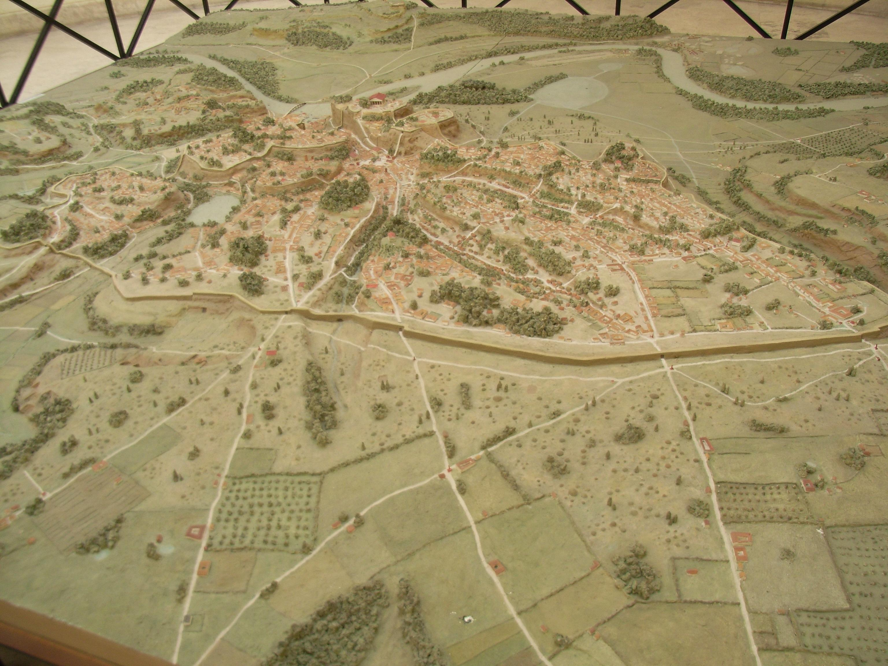 Model of Rome.